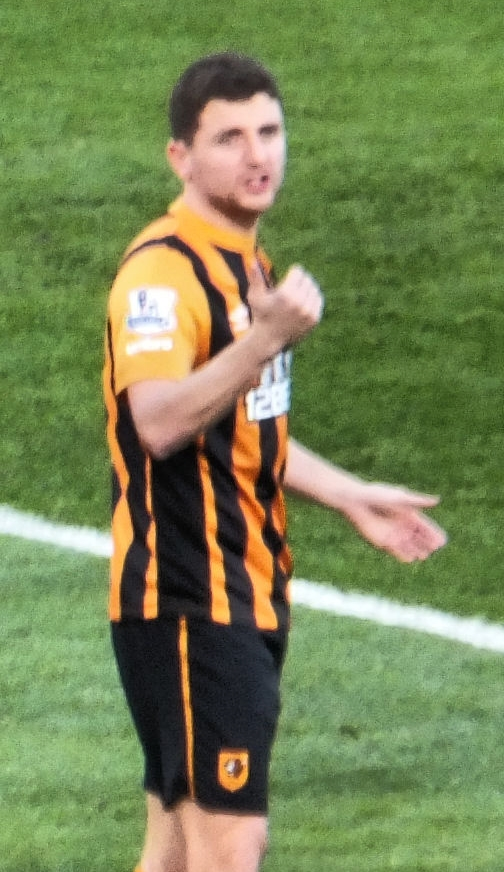 Alex Bruce playing for Hull City against Chelsea at Stamford Bridge, London on 13 December 2014